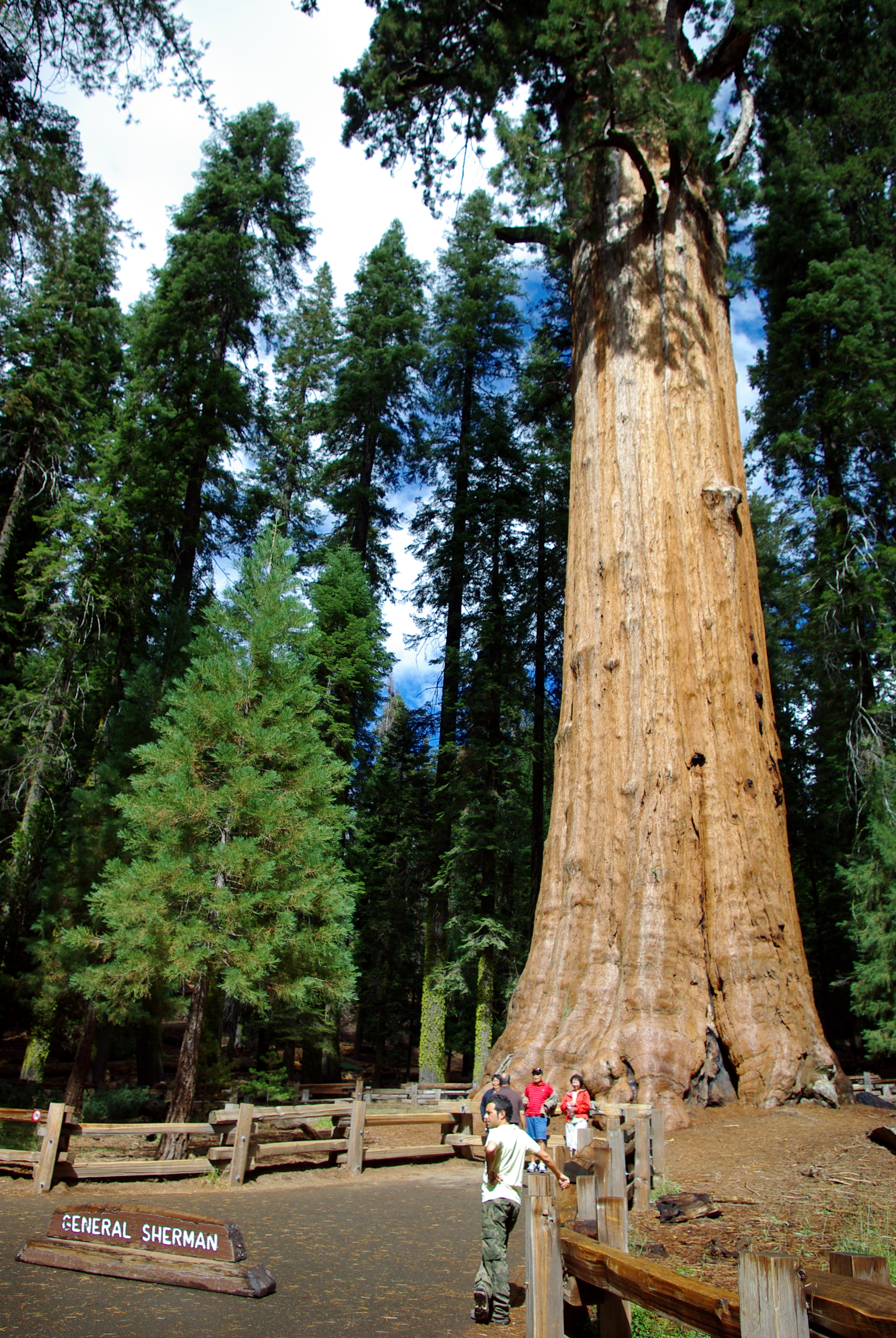 Visitors in front of the General Sherman Tree, Sequoia National Park